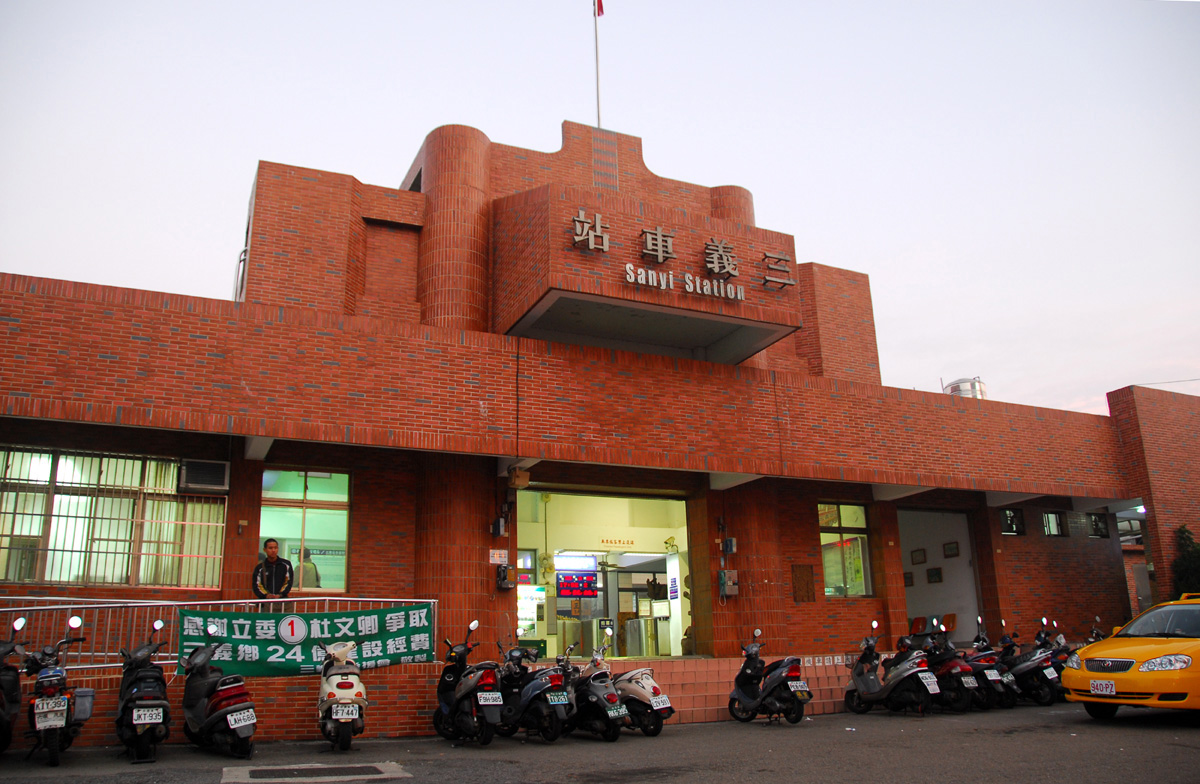 SanYi Station is a train station of TaiChung Line, one of the trunk line of Taiwan Railway Administration. It is located within the boundary of SanYi Township, MiaoLi County.